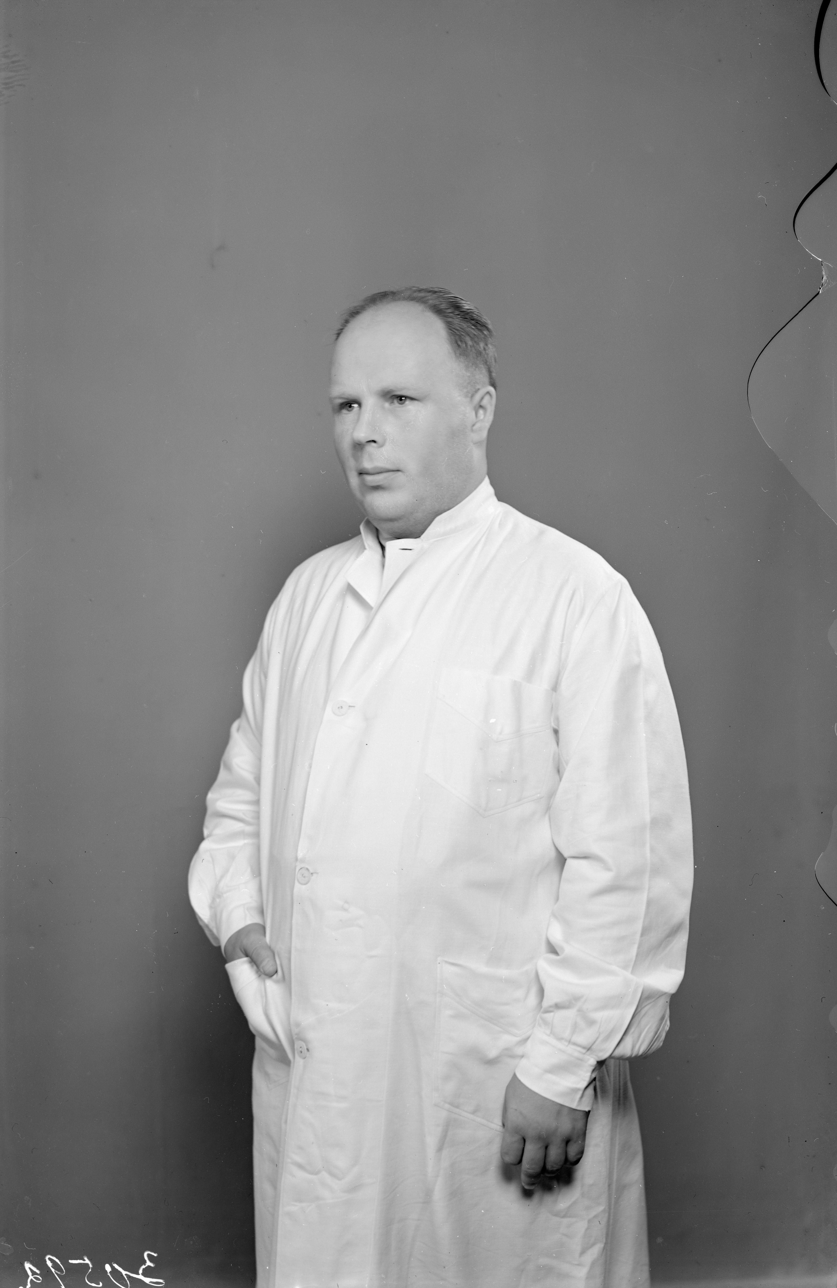 Photograph of the Finnish physician Pauli I. Tuovinen (1903–1965).